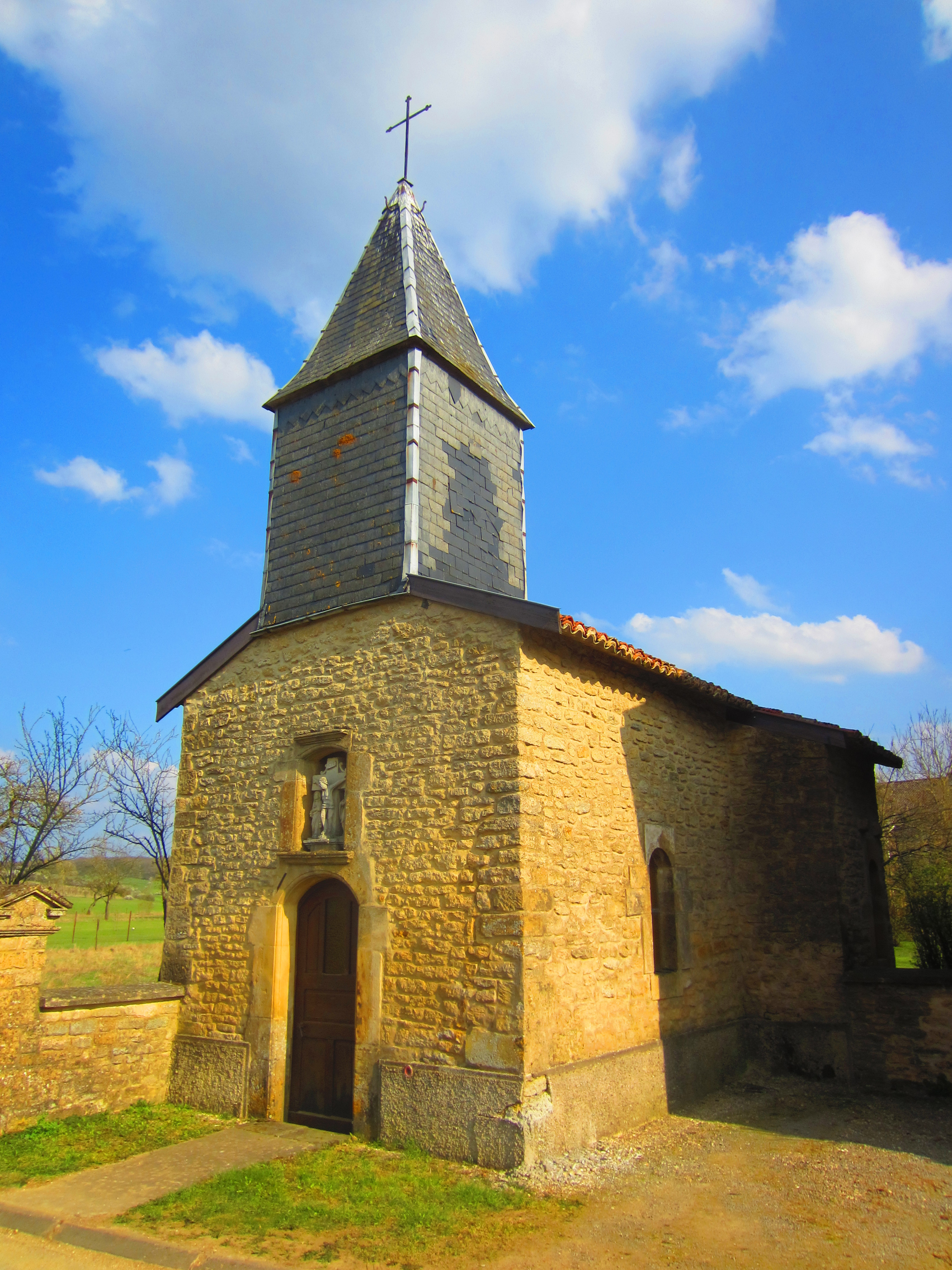 Delut chapel